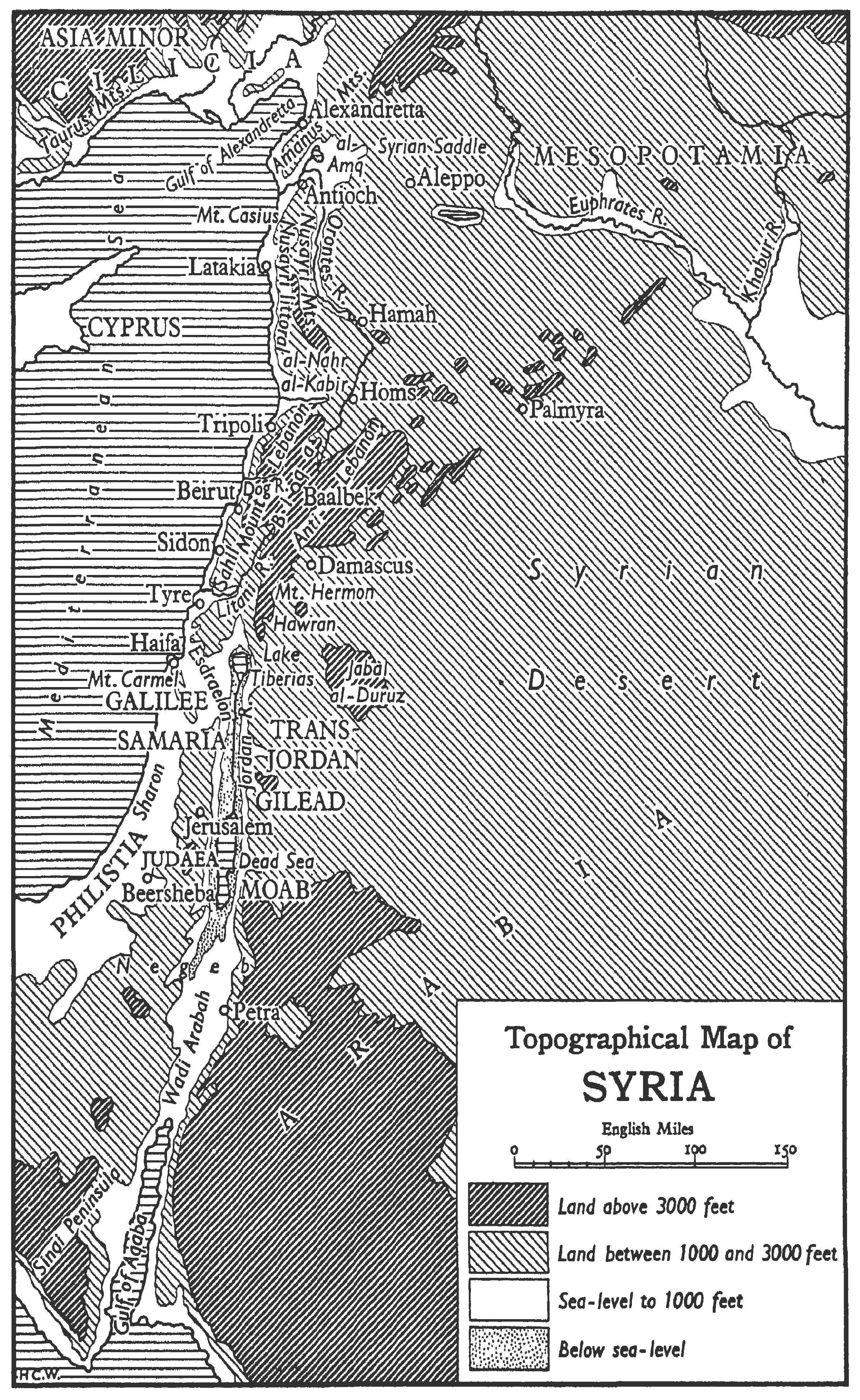 Topographical map of Syria